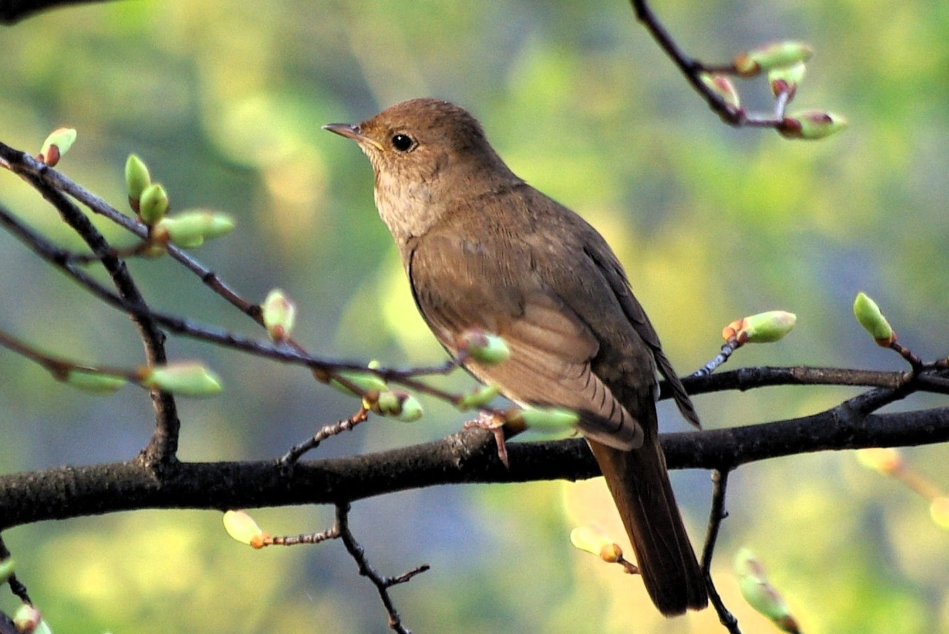 Thrush nightingale (Luscinia luscinia)